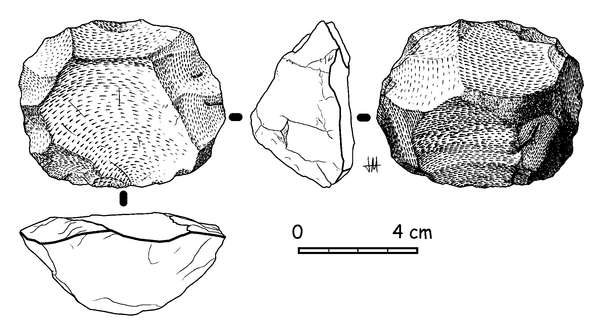 Levallois lithic core whit typical shape of tortoise, their tithic reduction has the aim to obtain one only flake with predetermined features. It is from La Parrilla (Valladolid, Spain)